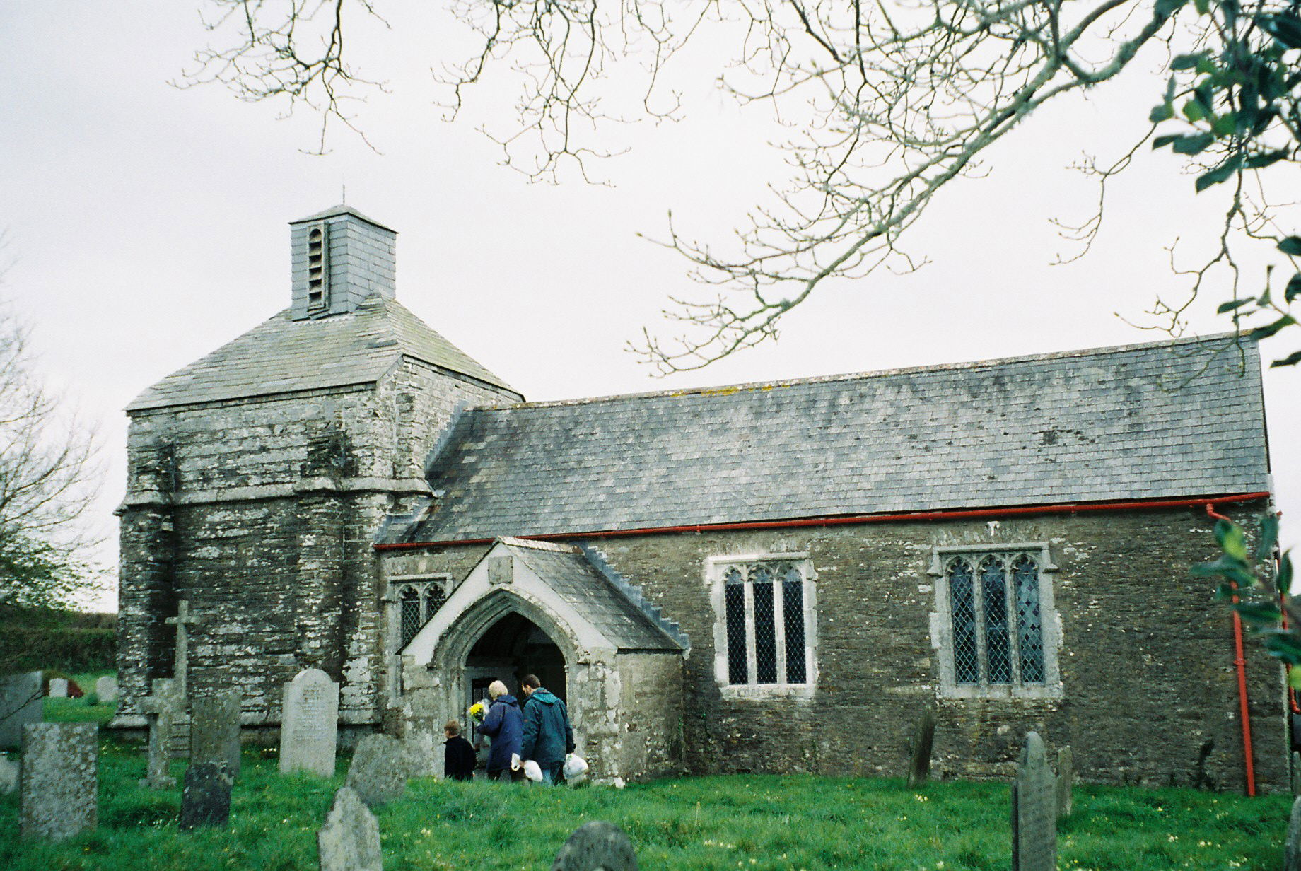 St Nectan's [1] Chapel, near Lostwithiel, Cornwall